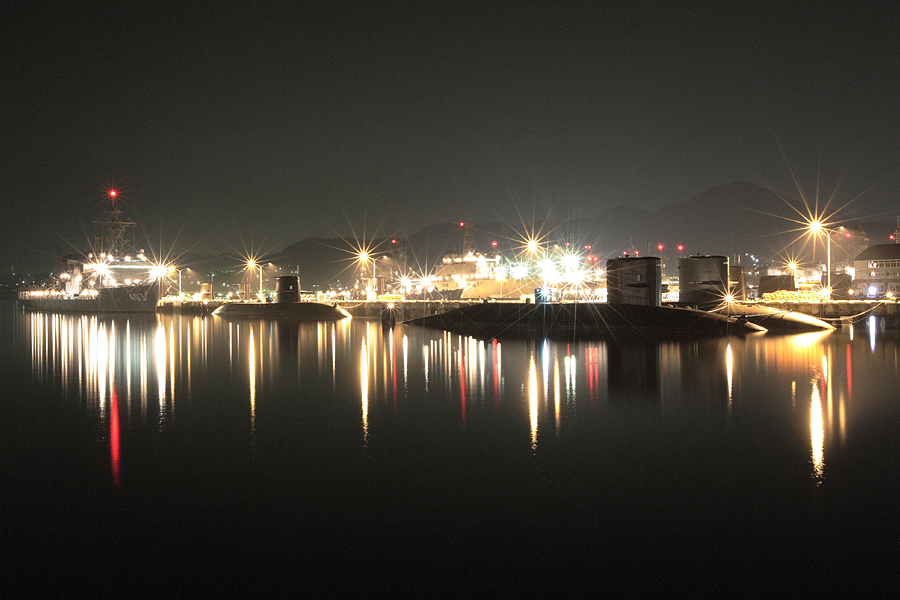 Three submarines and the tender Chihaya moored at JMSDF Kure Base, Hiroshima, Japan. Canon EOS 5D